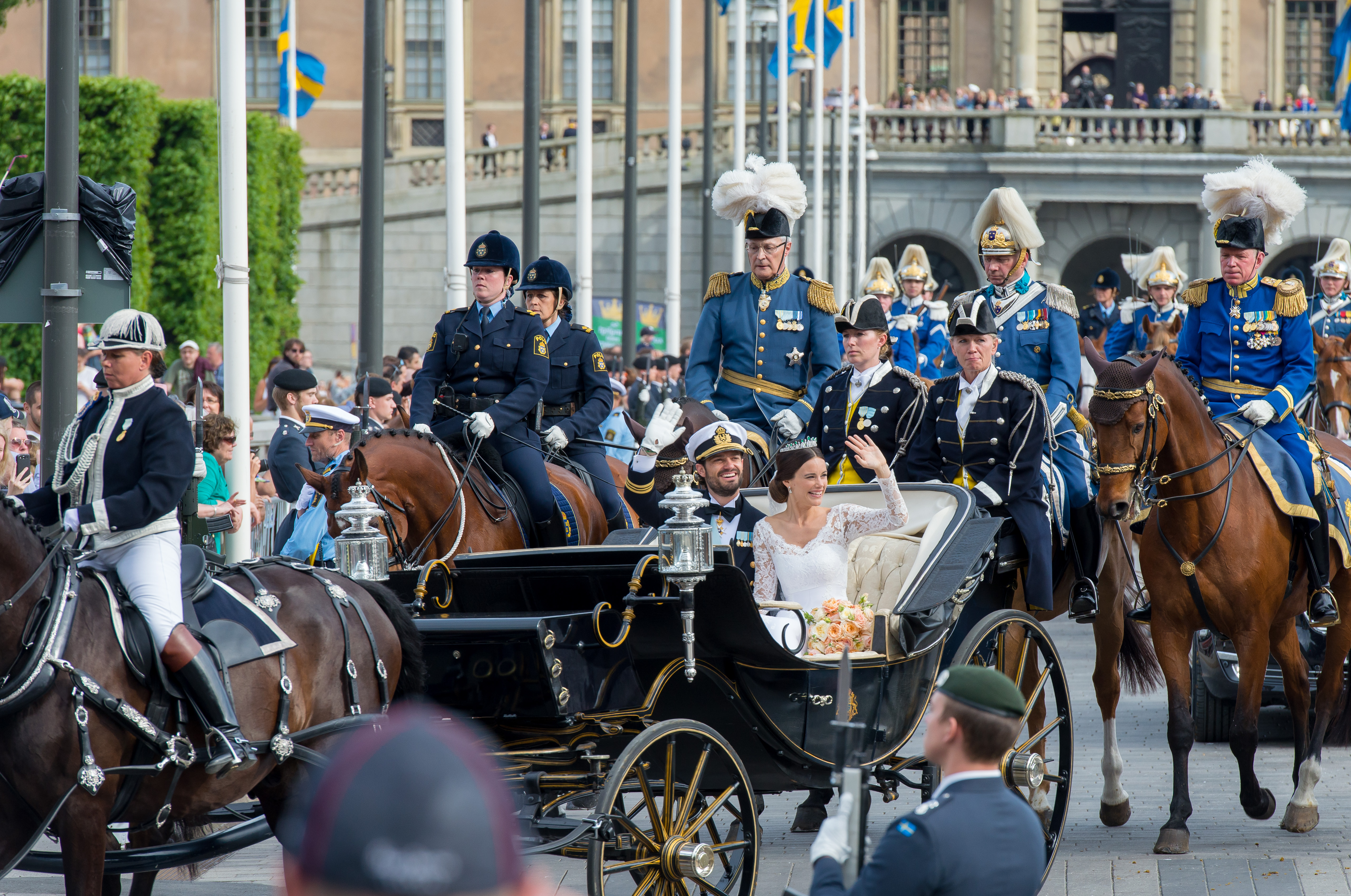 Prince Carl Philip and Princess Sofia after the ceremony in the Royal Chapel and during the procession through central Stockholm.